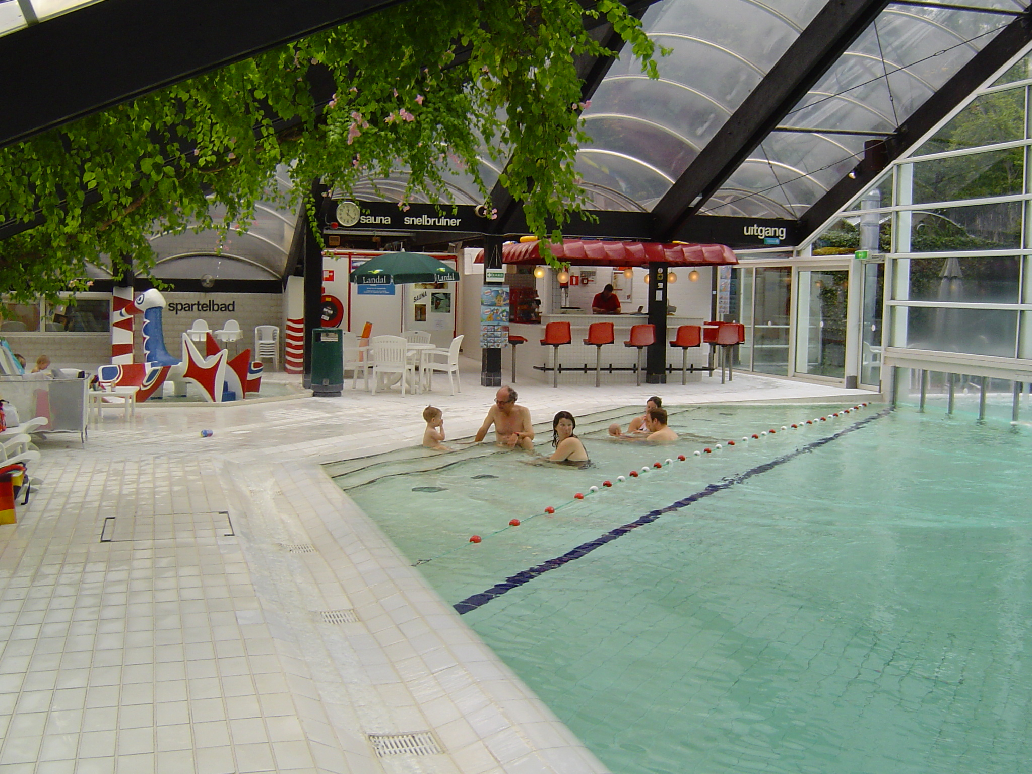 Berkenhorst holiday park